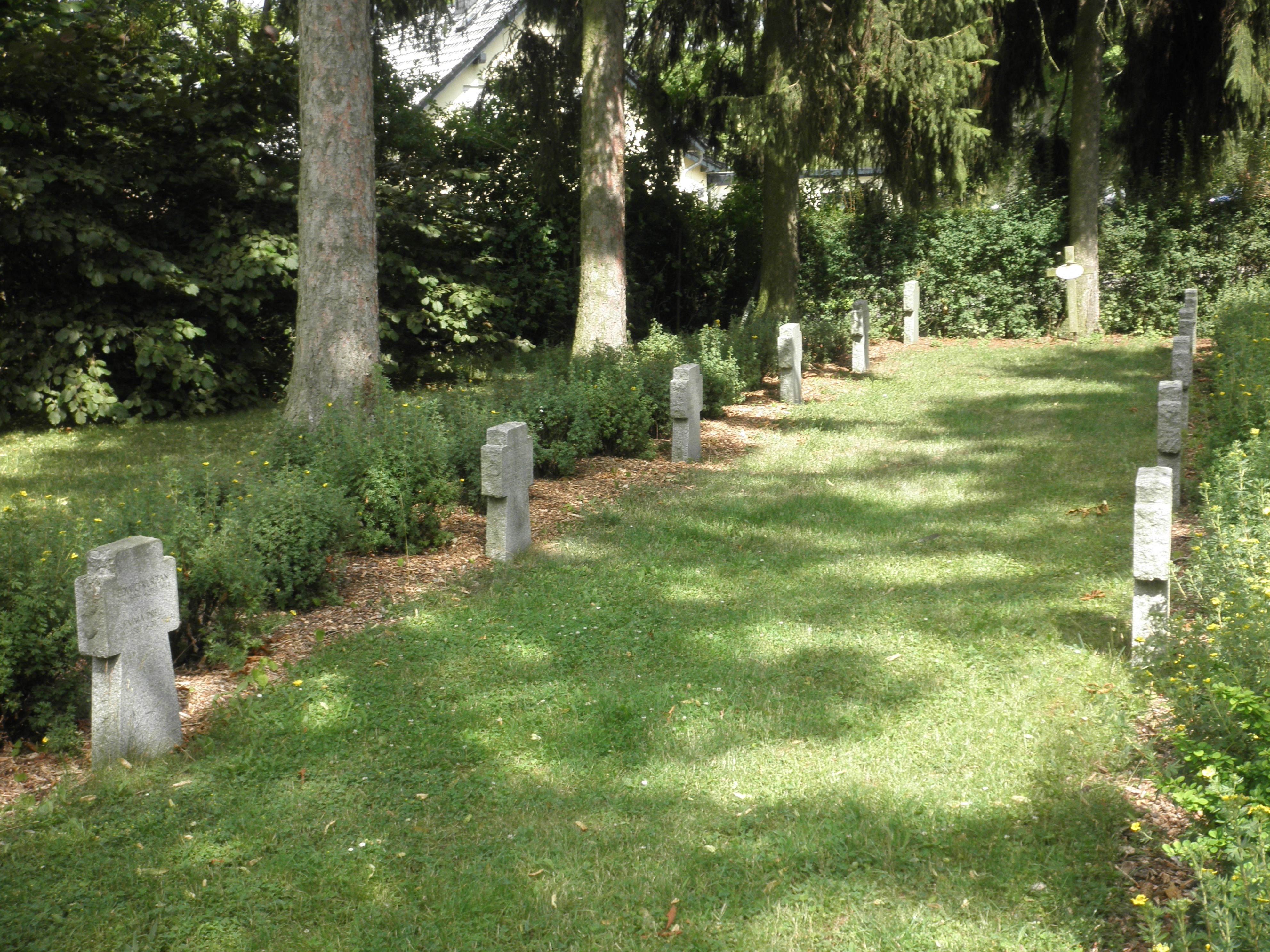 Graves of Bombing Victims and Soldiers in Erfurt-Bindersleben in Thuringia